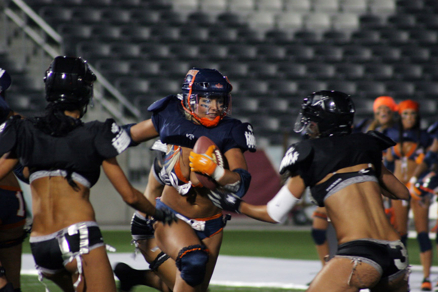 Denver Dream player (center, in blue and orange bottoms) rushing past players from the L.A. Temptation